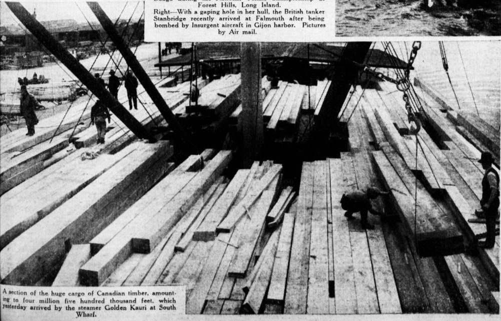 Canadian timber on the deck of the Oriental & Oceanic freighter SS Golden Kauri, South Wharf, Melbourne, Australia, 30 September 1937.